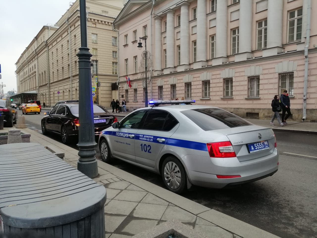 Skoda Octavia used by the Ministry for Internal Affairs